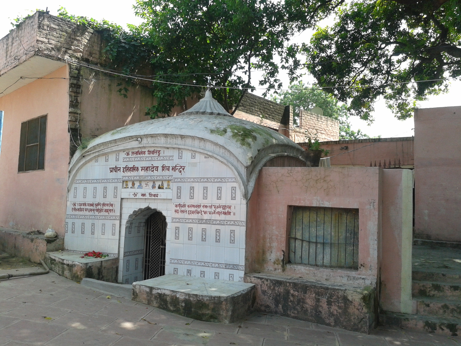 Mahadev Temple, Kapal Mochan, Haryana, India